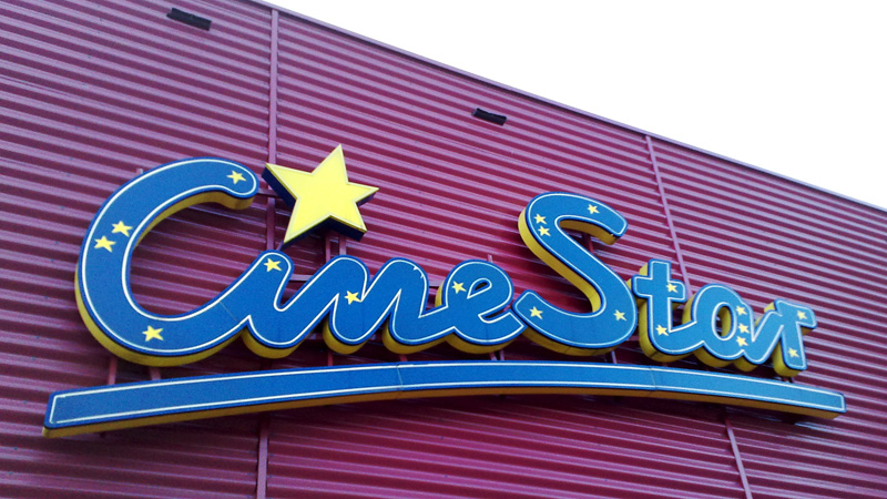 CineStar Enschede logo, photograph made on the side of the building